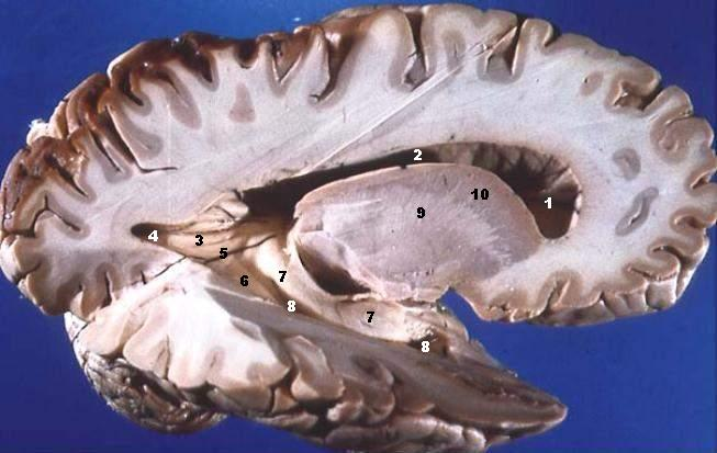 Human brain right dissected lateral view description.JPG Lateral Portion of Frontal, Parietal, Occipital, and Superior Portion of Temporal Lobe Resected. The anterior horn of the lateral ventricle is located in the frontal lobe. The body of the lateral ventricle continues posteriorly into the parietal lobe, the posterior horn into the occipital lobe, and the inferior horn down into the temporal lobe. Some structures produce elevations or bumps in the walls of the posterior and/or inferior horns of the lateral ventricles. Ventriculus lateralis, Cornu frontale Ventriculus lateralis, Pars centralis Calcar avis Ventriculus lateralis, Cornu occipitale Trigonum collaterale Eminentia collateralis Hippocampus Ventriculus lateralis, Cornu temporale Capsula interna Nucleus caudatus (font: arial black, size: 10)